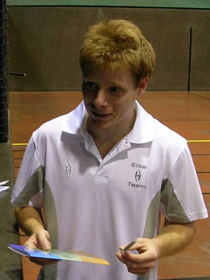 Camden Riviere signing an autograph at the Aiken Tennis Club after winning a match in the world championship challenger series.